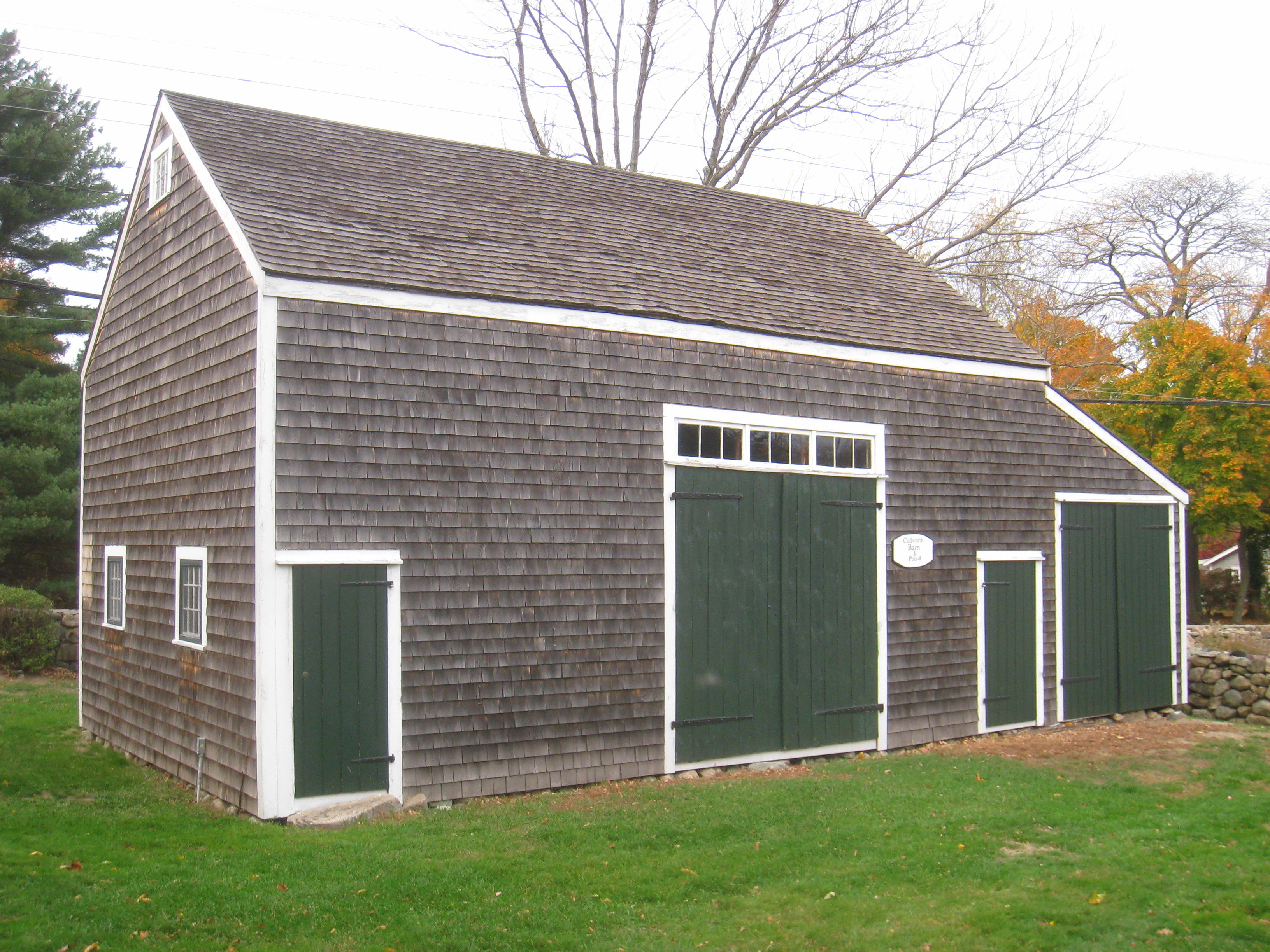 Cudworth Barn, Scituate, Massachusetts, USA.